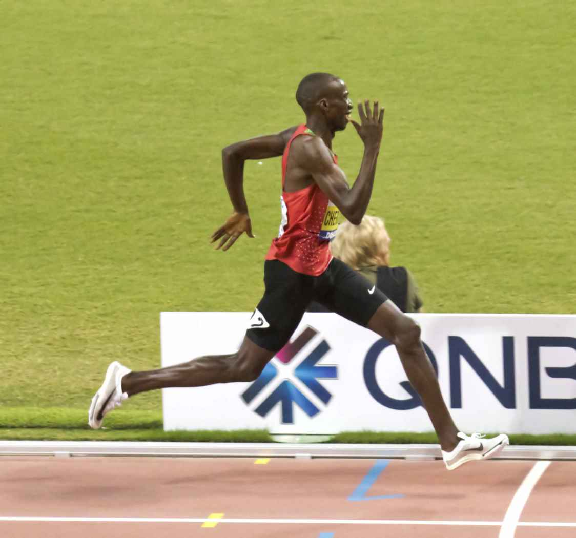 DOH90058 1500m men final cheruyiot